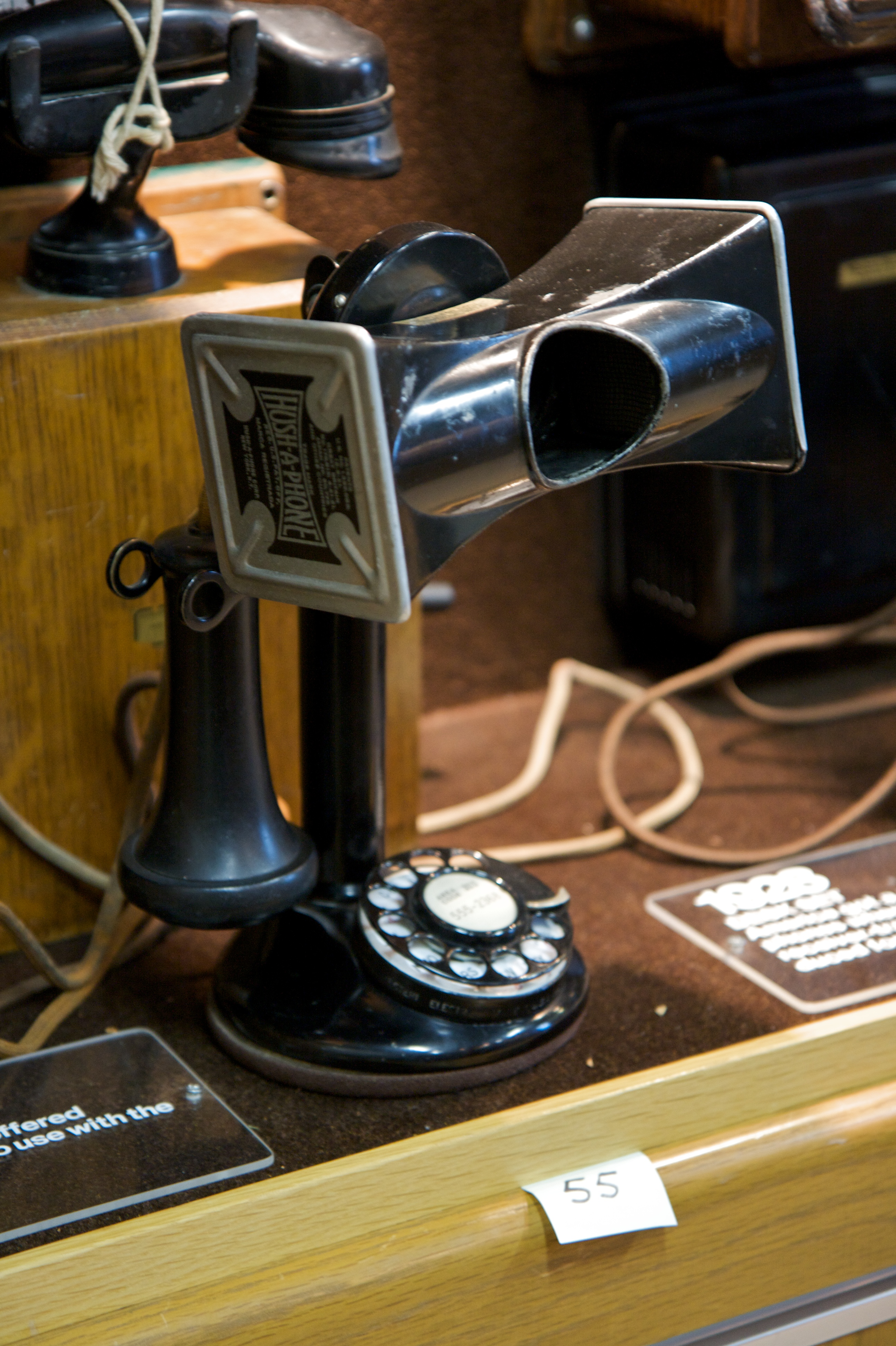 Hush-a-phone pedestal model. You speak into the tube, so that no one can hear your private conversation. Herbert H. Warrick Jr. Museum of Communications, Georgetown, Seattle, Washington.